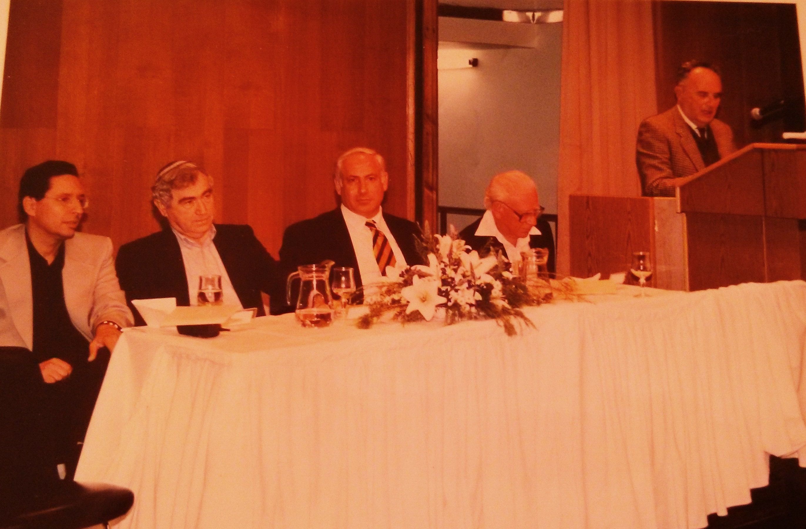 A.B. Yaffe (at podium) receiving the Prime Minister's prize for Hebrew writers. Seated (left to right): Ortsion Bartana, Benjamin Netanyahu, Zevulun Hammer, Aharon Yadlin